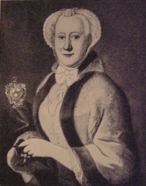 Else Margrethe Rosenkrantz, née Sehested (1708-1775), Danish noblewoman, recipient of l'union parfaite